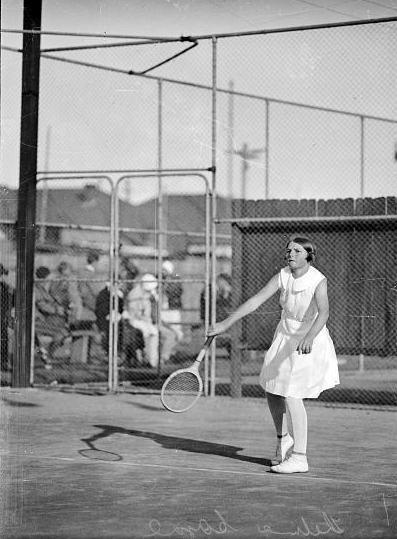 Australian tennis player Thelma Coyne in New South Wales.